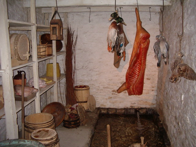 New World pantry Ulster American Folk Park The pantry is kept cool by the stream flowing through the building.